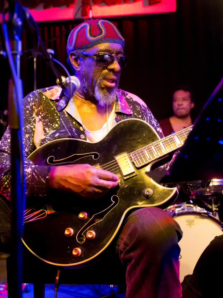 James Blood Ulmer, Guitarist and Vocalist, Jazz and Blues; Picture taken in Jazz Club Unterfahrt, Munich/Bavaria